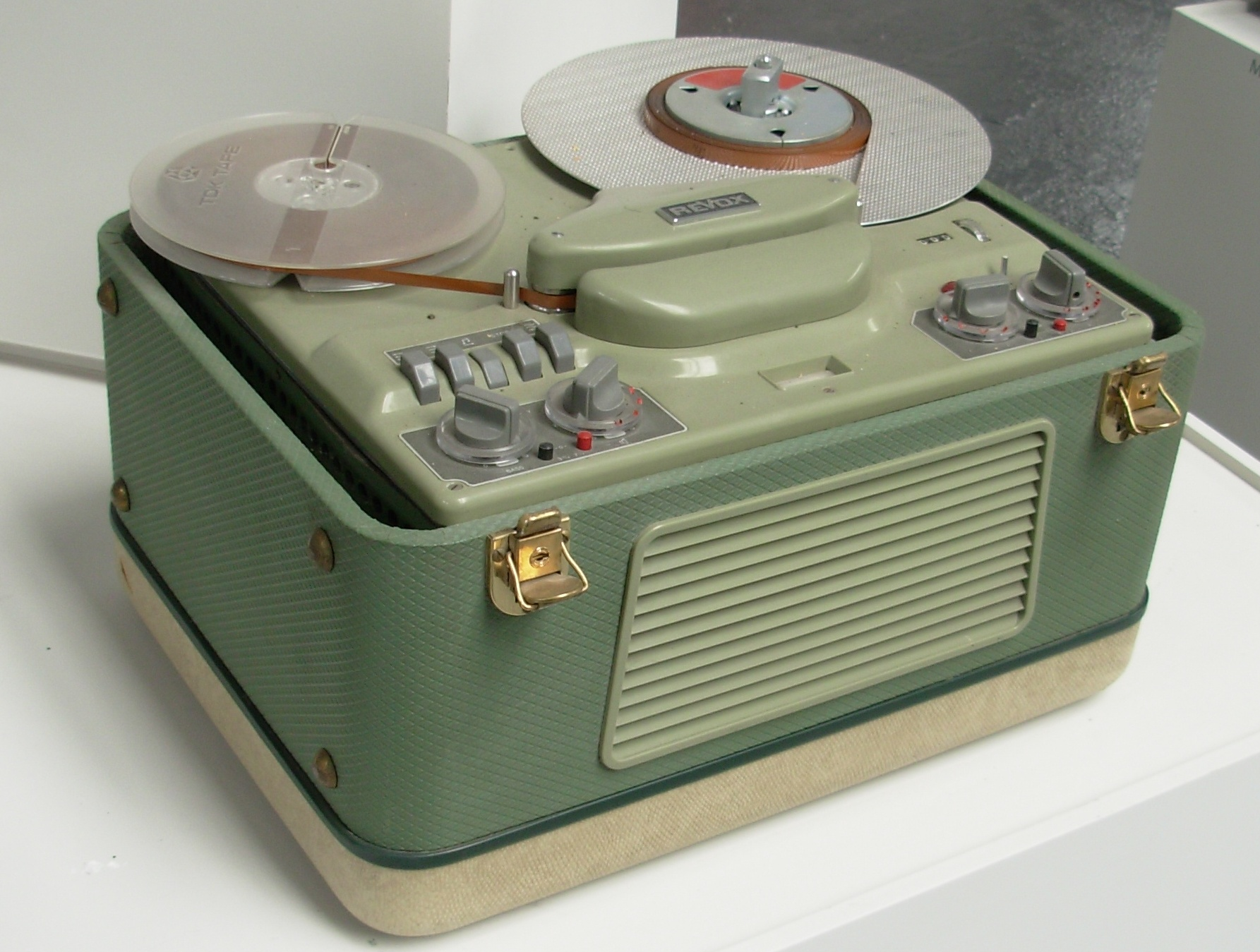 Tape Recorder Studer Revox F 36, 1957